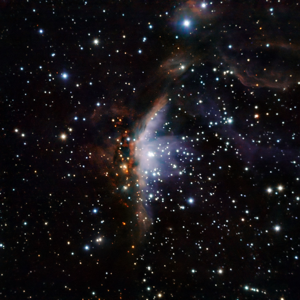 This image of the Gum 19 star-forming region was obtained with SOFI, an infrared instrument mounted on ESO’s New Technology Telescope (NTT) that operates at the La Silla Observatory in Chile. Gum 19 is located in the direction of the constellation Vela (the Sail) at a distance of approximately 22 000 light years. The furnace that fuels Gum 19’s luminosity is a gigantic, superhot star called V391 Velorum. Shining brightest in the scorching blue range of visible light — V391 Velorum boasts a surface temperature in the vicinity of 30 000 degrees Celsius. Within the neighbourhood of this fitful supergiant, new stars nonetheless continue to grow. In several million years — a blink of an eye in cosmic time — they will eventually reach the high density at their centres necessary to ignite nuclear fusion. The fresh outpouring of energy and stellar winds from these newborn stars will also modify the gaseous landscape of Gum 19. The image is based on data obtained in three near-infrared bands (J, H, K; associated respectively to blue, green, and red). The image is 4.7 arcminutes across.